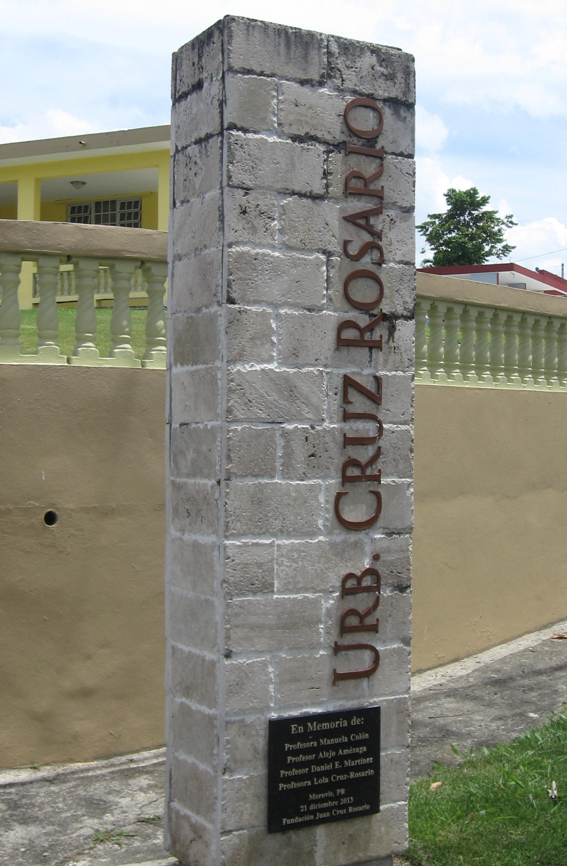 Oldest urbanization of Morovis, Puerto , near Red Bridge